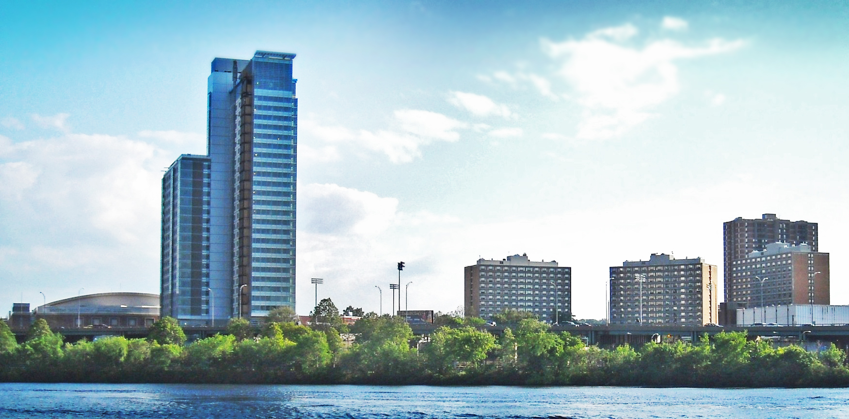 The three dorms of West Campus are dwarfed by the 26-story tower of John Hancock Student Village as it nears completion.